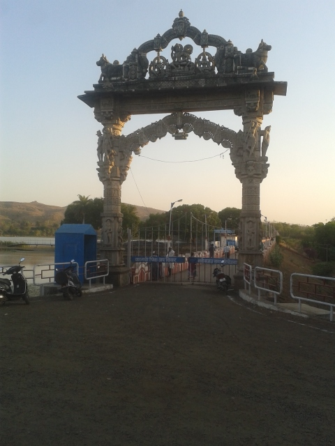 Banswara Tourist attraction a wonderful picnic spot in banswara with lake and scenary